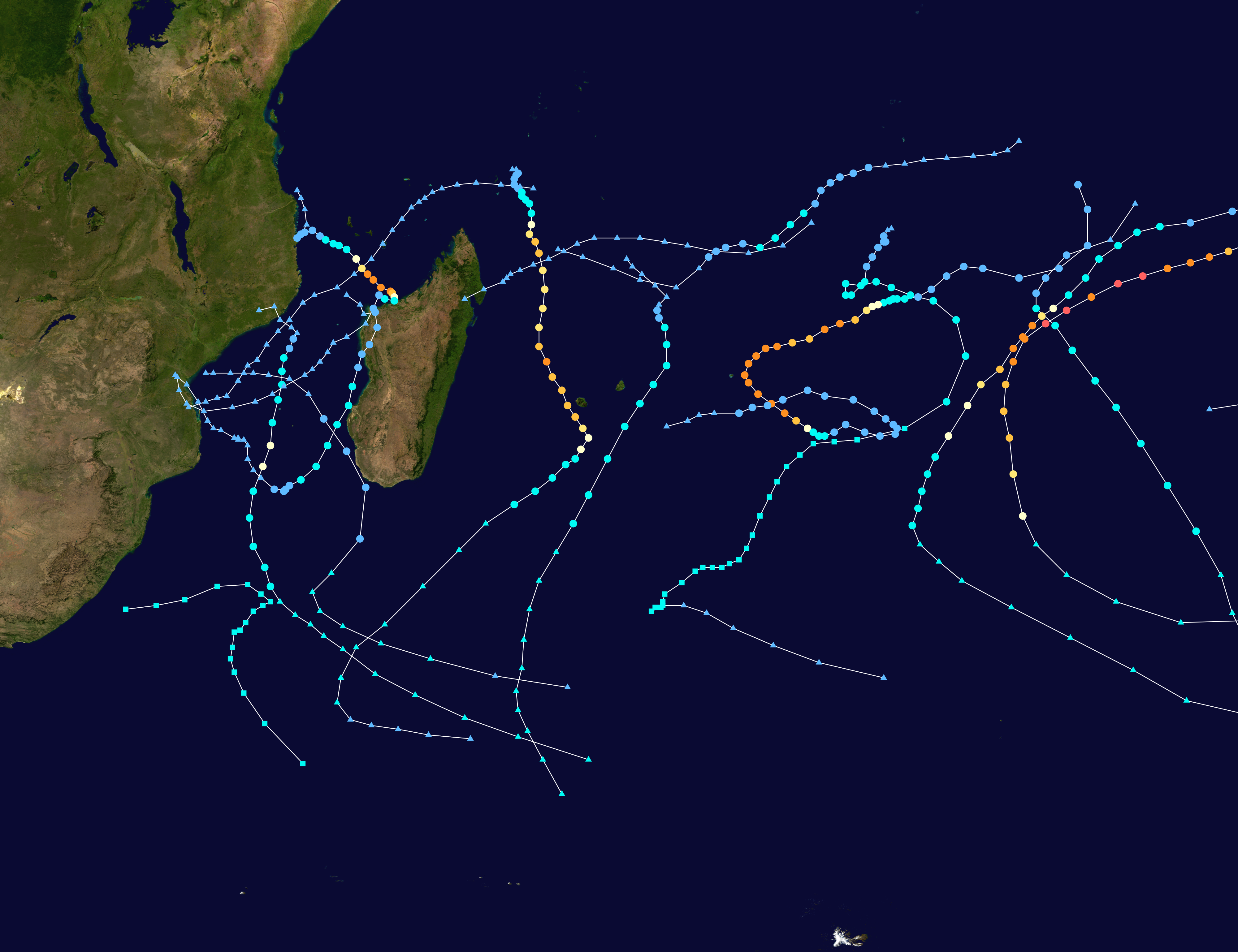 This map shows the tracks of all tropical cyclones in the 2013-14 South-West Indian Ocean cyclone season. The points show the location of each storm at 6-hour intervals. The colour represents the storm's maximum sustained wind speeds as classified in the Saffir-Simpson Hurricane Scale (see below), and the shape of the data points represent the type of the storm. Saffir–Simpson scale Tropical depression≤38 mph≤62 km/h Category 3111–129 mph178–208 km/h Tropical storm39–73 mph63–118 km/h Category 4130–156 mph209–251 km/h Category 174–95 mph119–153 km/h Category 5≥157 mph≥252 km/h Category 296–110 mph154–177 km/h Unknown Storm type Tropical cyclone Subtropical cyclone Extratropical cyclone / Remnant low / Tropical disturbance / Monsoon depression